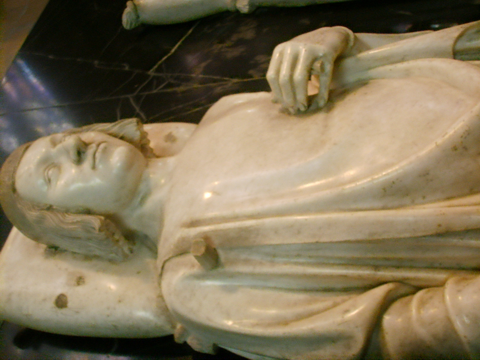 Tomb of Charles V of France in Saint-Denis